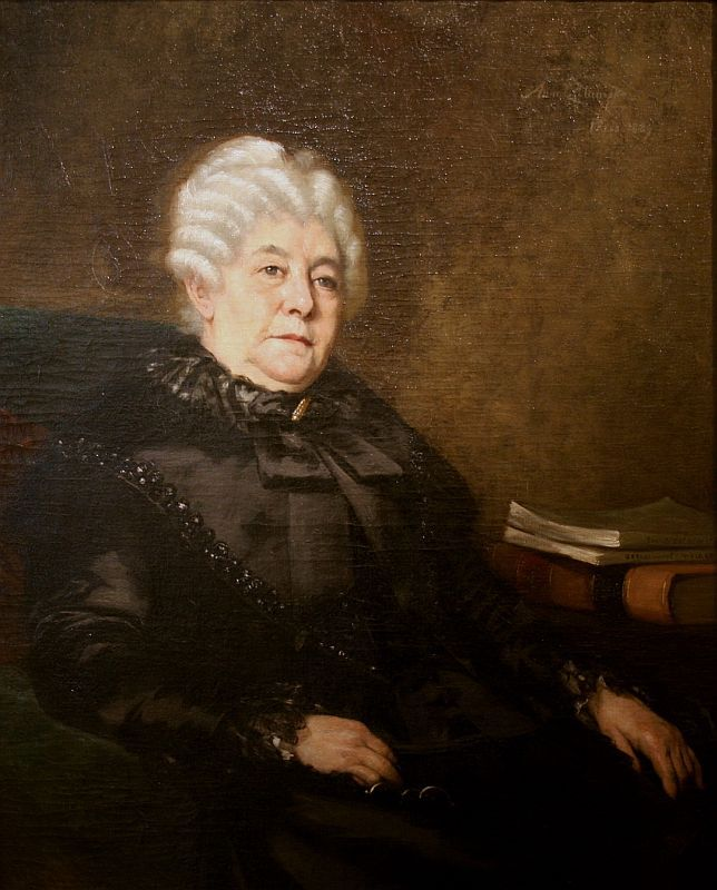 Anna Elizabeth Klumpke (1856–1942)/National Portrait Gallery. Elizabeth Cady Stanton, 1889